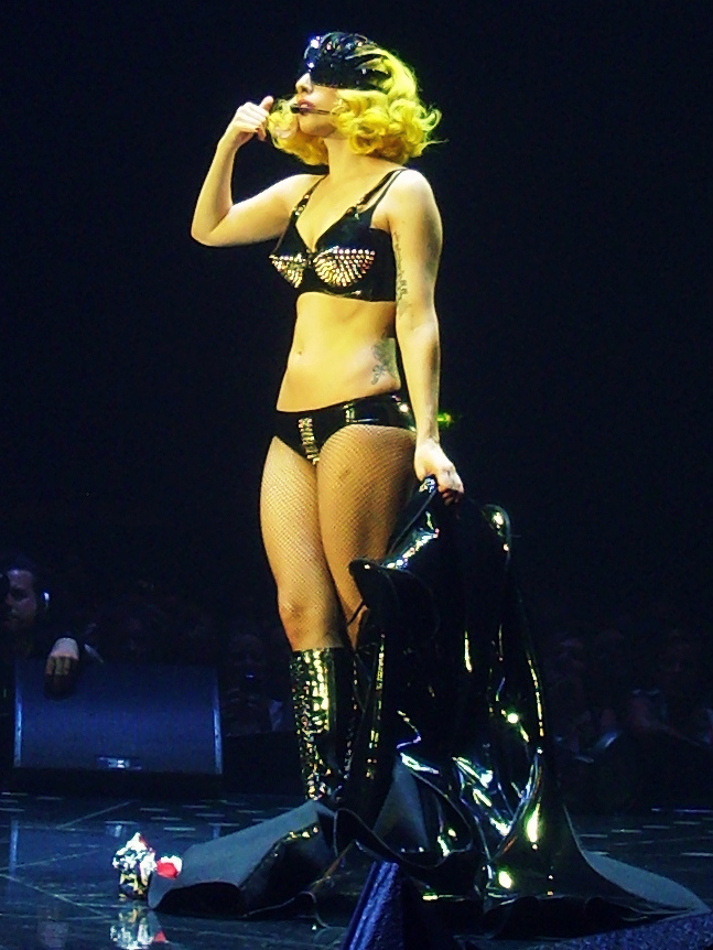 Lady Gaga performing "Telephone" on The Monster Ball Tour.